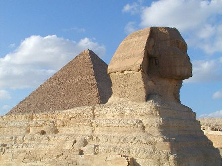 The Sphinx of Gizeh, originially uploaded by German Wikipedia User Urbanus. He says its self-taken and public domain.